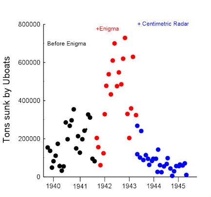 merchantmen sunk by Uboats in WW2 from losses in the battle of the atlantic